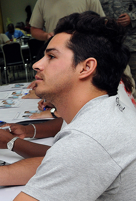 Ozzy Lusth at Camp As Sayliyah, Qatar, May 20, 2008. Lusth, a former participant from the popular American reality-television series Survivor, was touring U.S. military installations in Southwest Asia to show support for U.S. troops.